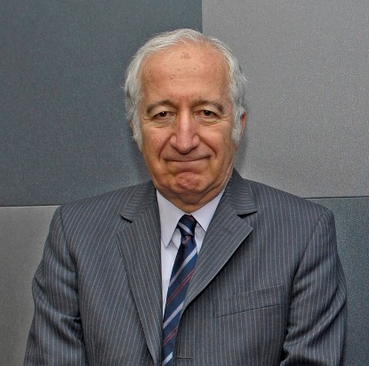 Bernardo Kliksberg, Asesor de Naciones Unidas